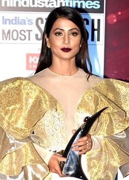 Hina Khan graces the HT Style Awards 2018.